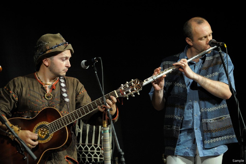 Nemo in Minsk . 2012